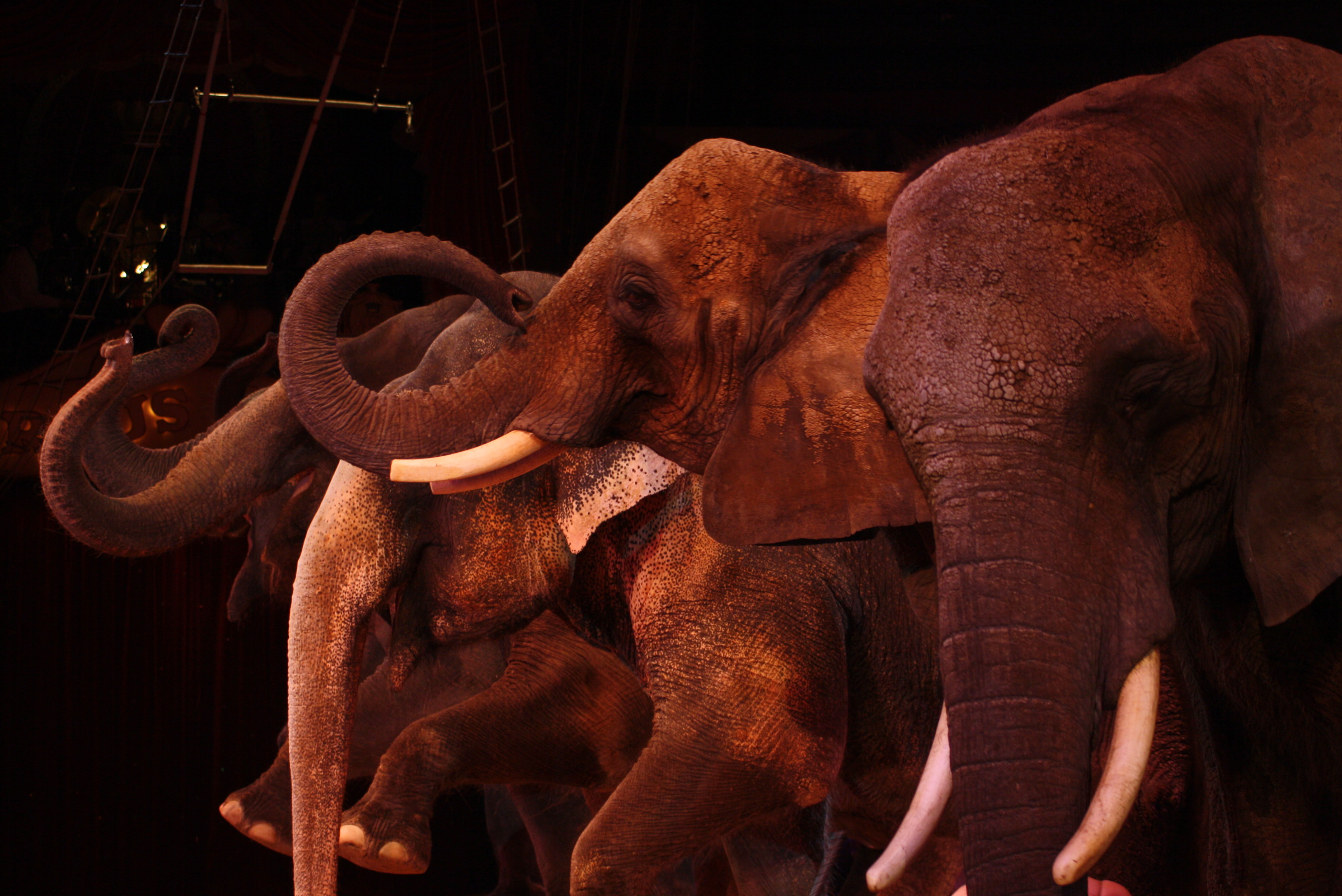 Elephant in a circus presentation.